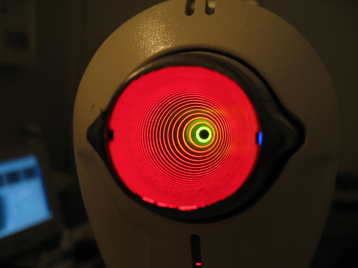 Computerised corneal topography